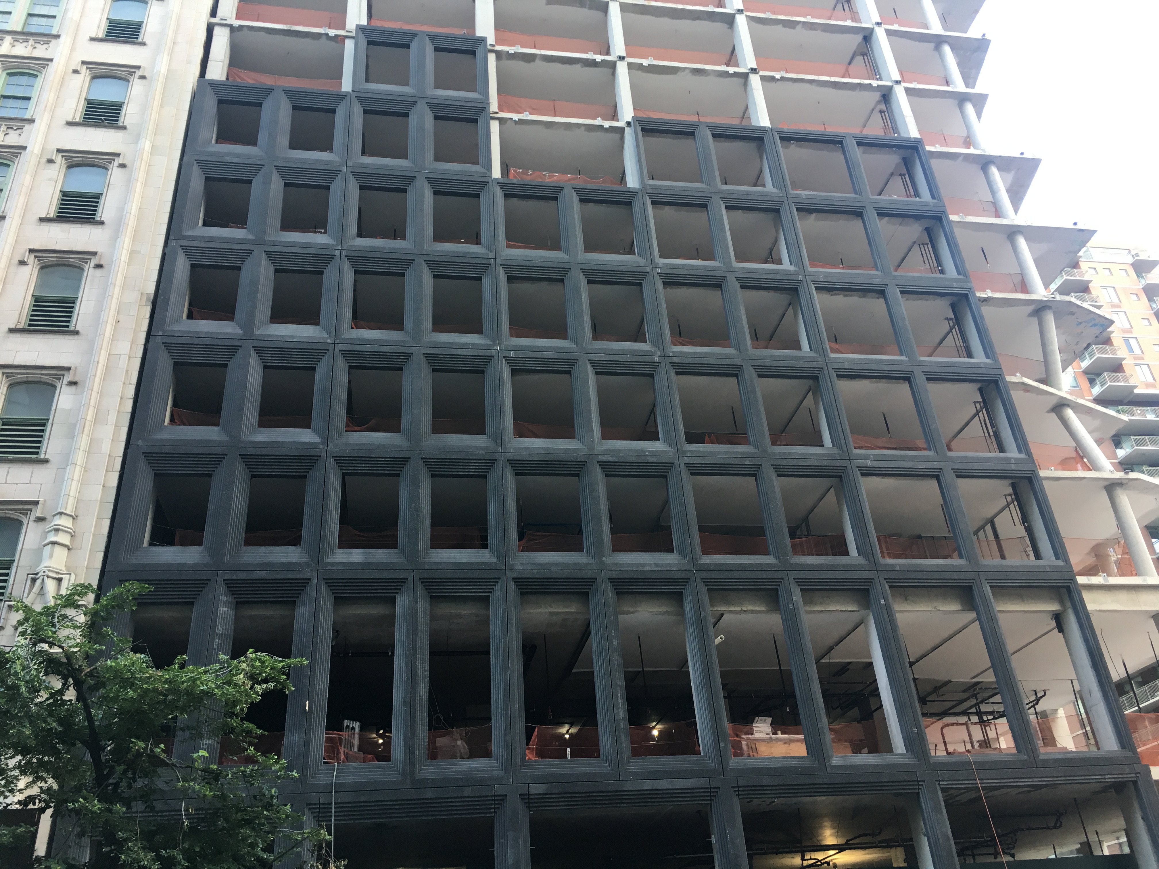 122 East 23rd Street Construction, June 2016